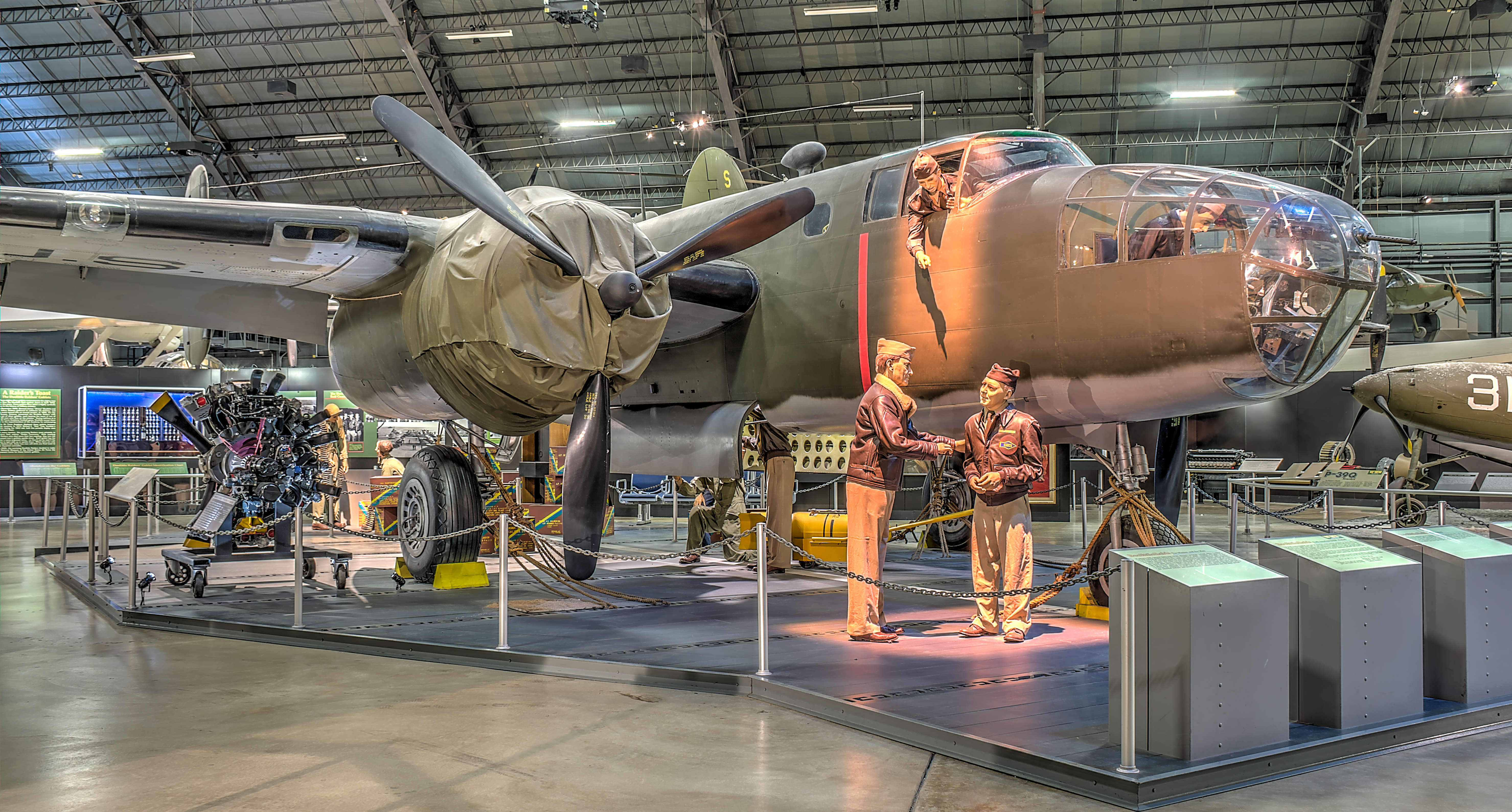 Museum display depicting a B-25B Mitchell in preparation for the Doolittle Raid.